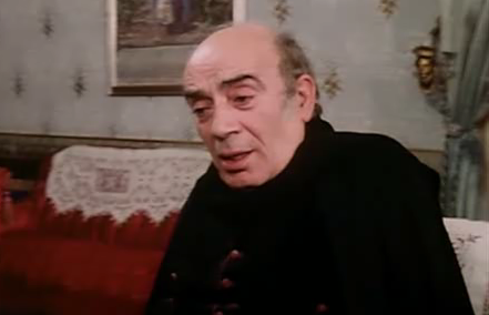 =screenshot from the Italian film Il fidanzamento (1975)